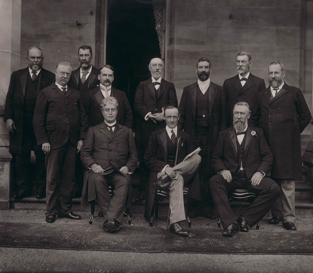 Members of the inaugural Federal Executive Council (Australia), including all nine members of the Barton Ministry, Australia's first national cabinet. Standing: John Forrest (Postmaster-General), George Turner (Treasurer), Richard O'Connor (Vice-President of the Executive Council), Elliott Lewis (Honorary Minister), James Robert Dickson (Minister for Defence), Alfred Deakin (Attorney-General), Alexander Budge (Clerk of the Executive Council), Charles Kingston (Minister for Trade and Customs) Seated: Edmund Barton (Minister for External Affairs), Lord Hopetoun (Governor-General), William Lyne (Minister for Home Affairs)